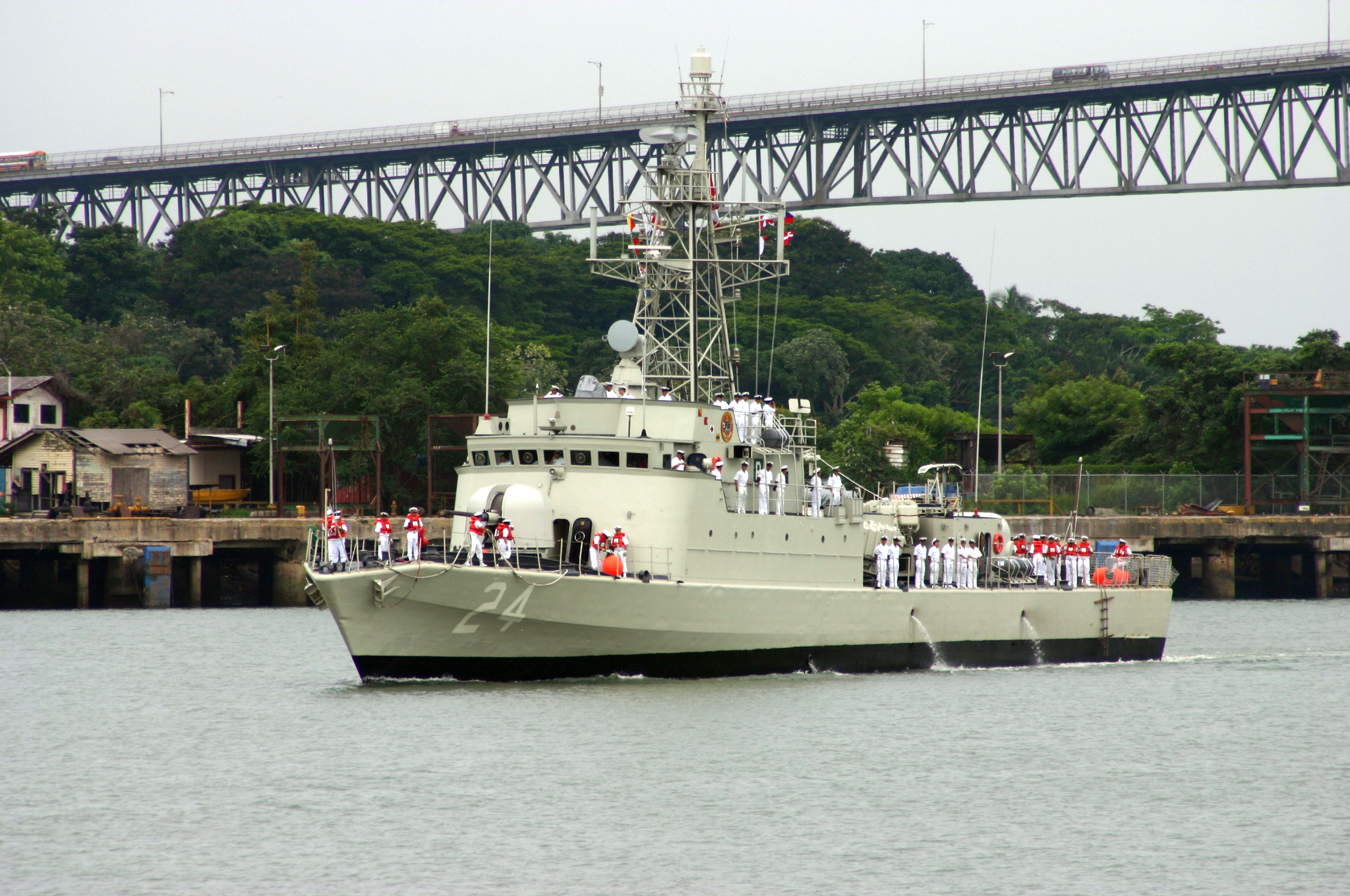 Panama City, Panama (Aug. 21, 2006) - The Peruvian ship BAP Herrera (CM 24) transit under the Bridge of the Americas as it prepares to participate in PANAMAX 2006. PANAMAX 2006 is multinational training exercise tailored to the defense of the Panama Canal, involving civil and military forces from the region. U.S. Navy photo by Mass Communication Specialist 2nd Class Jose Lopez, Jr. (RELEASED)